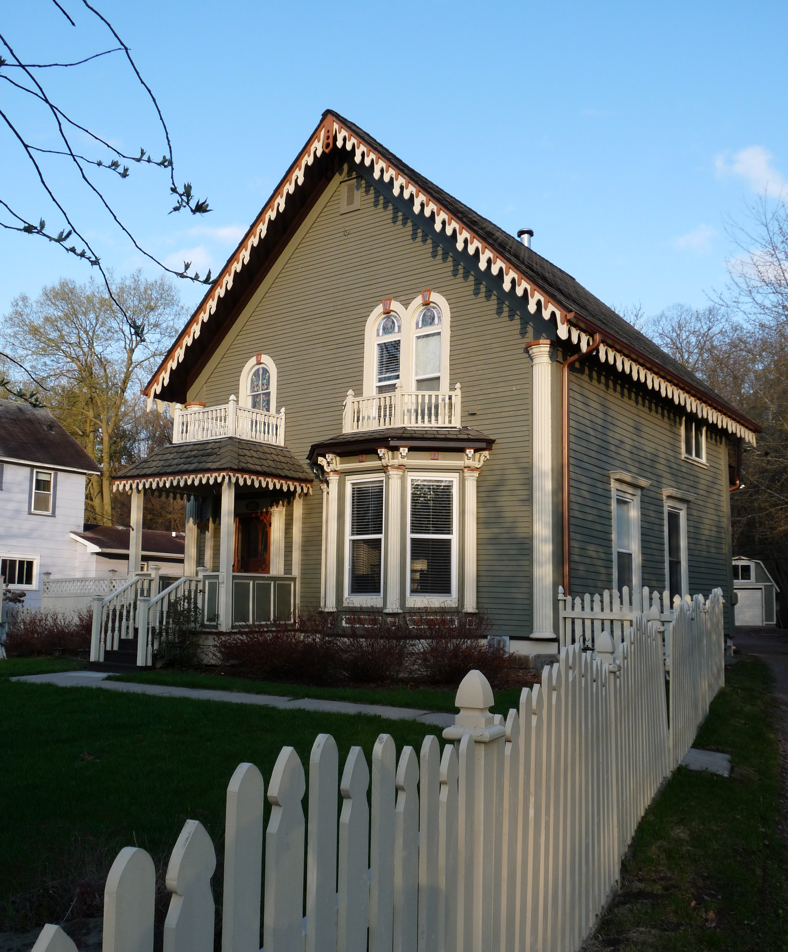 Built in 1873 in Eau Claire, Wisconsin, the Levi Merrill house mixes elements of gothic revival and Classical Revival styles. In 1985 the house was added to the National Register of Historic Places.